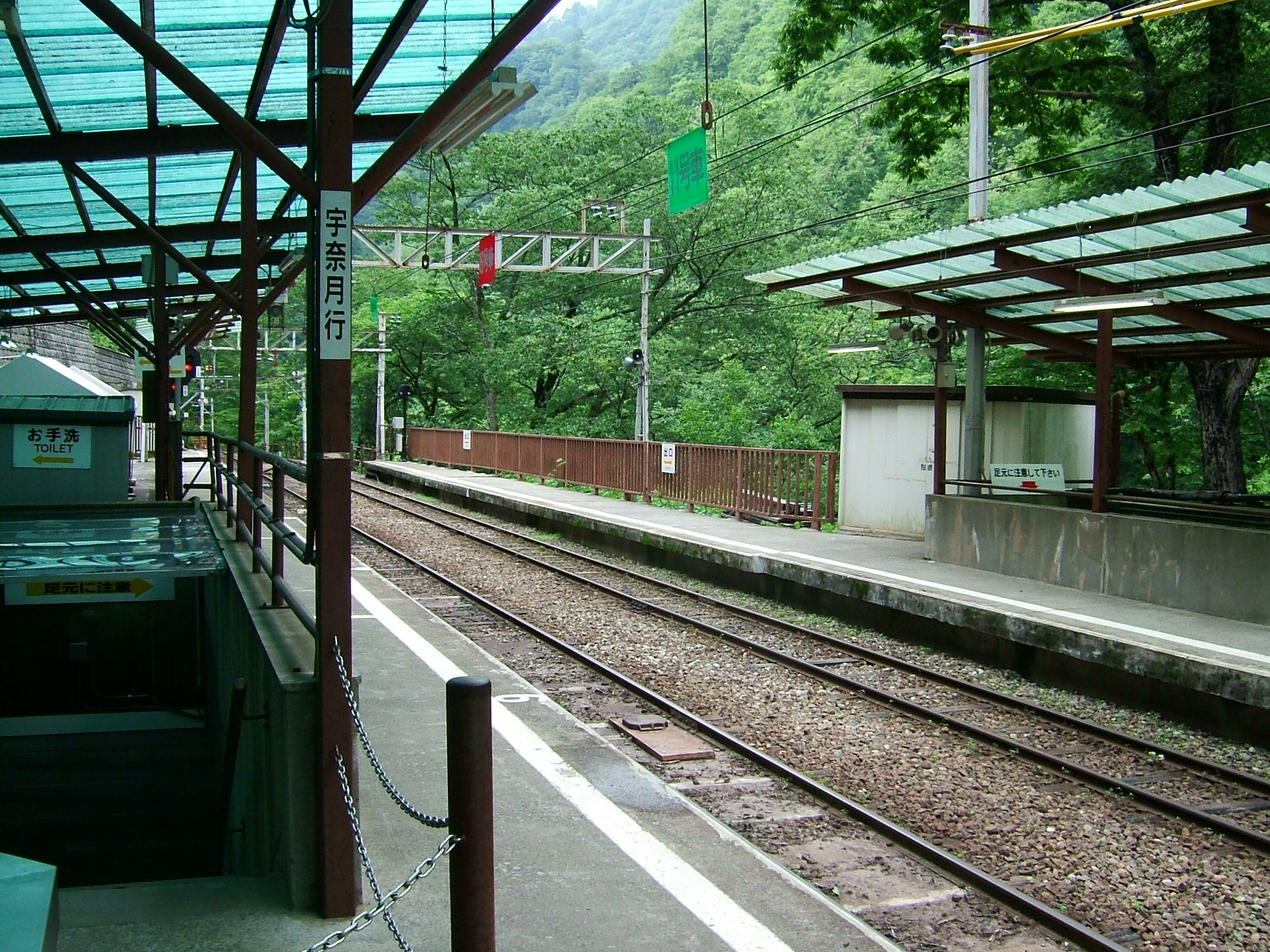 The platforms at Kanetsuri station on the Kurobe Gorge Railway Main line